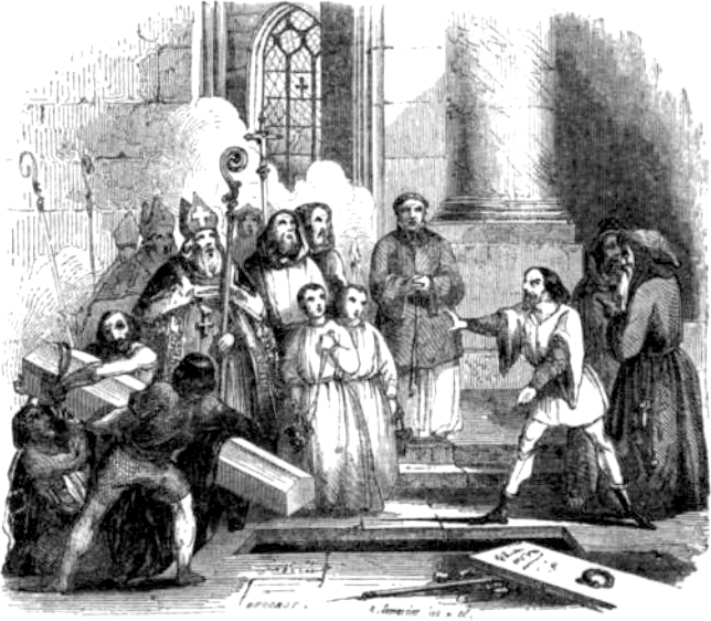 The Clameur de haro (1792-1845), a plea for justice in Norman law.